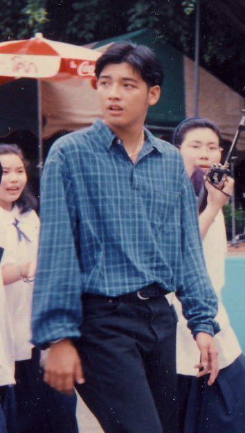 Sornram Teppitak in 1990s